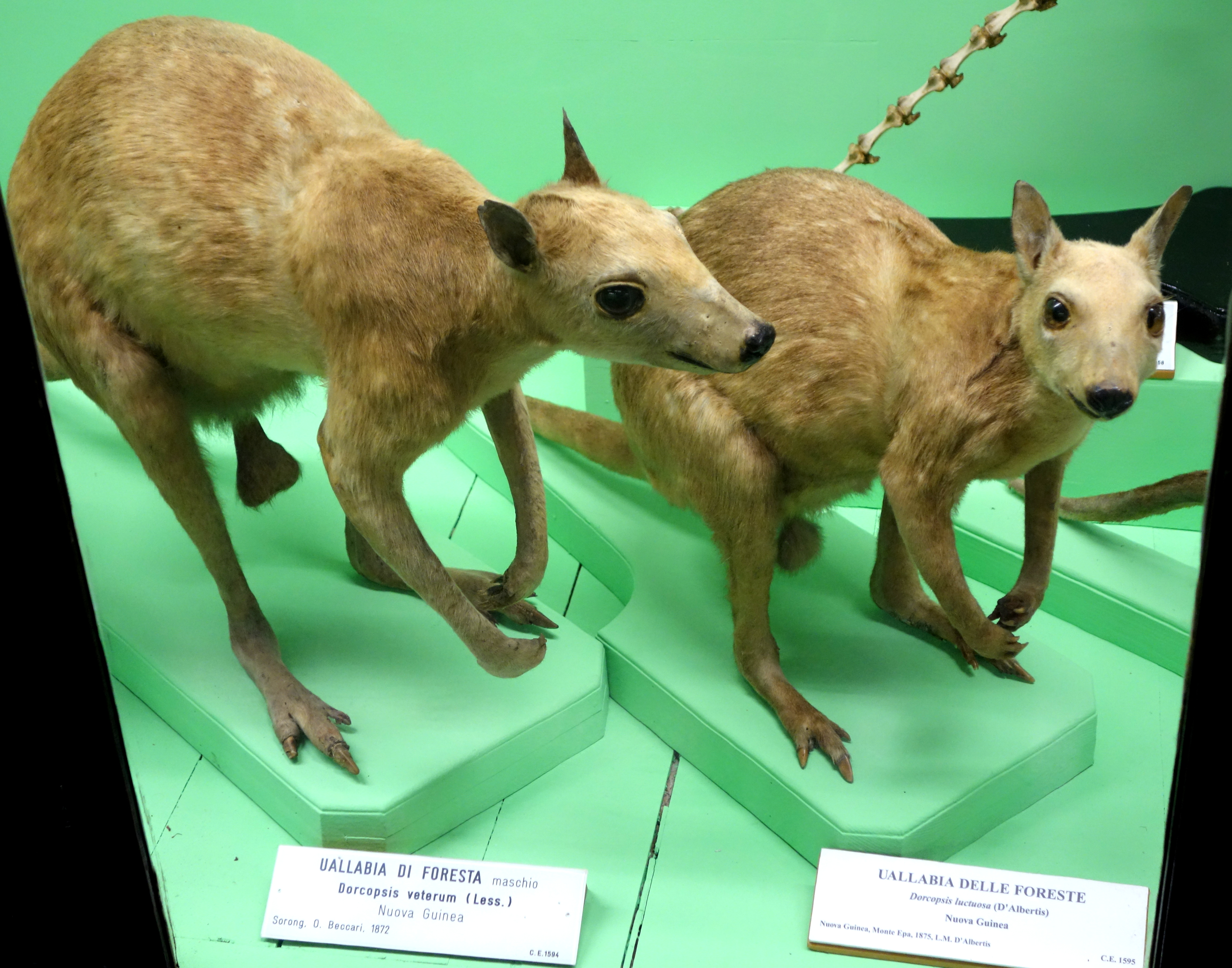 Exhibit in the Museo Civico di Storia Naturale di Genova, Via Brigata Liguria, 9, 16121, Genoa, Italy.